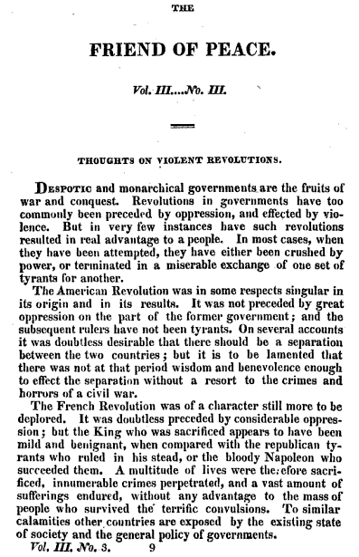 From: Friend of Peace v.3, no.3 (Cambridge MA: Hilliard & Metcalf, 1824)